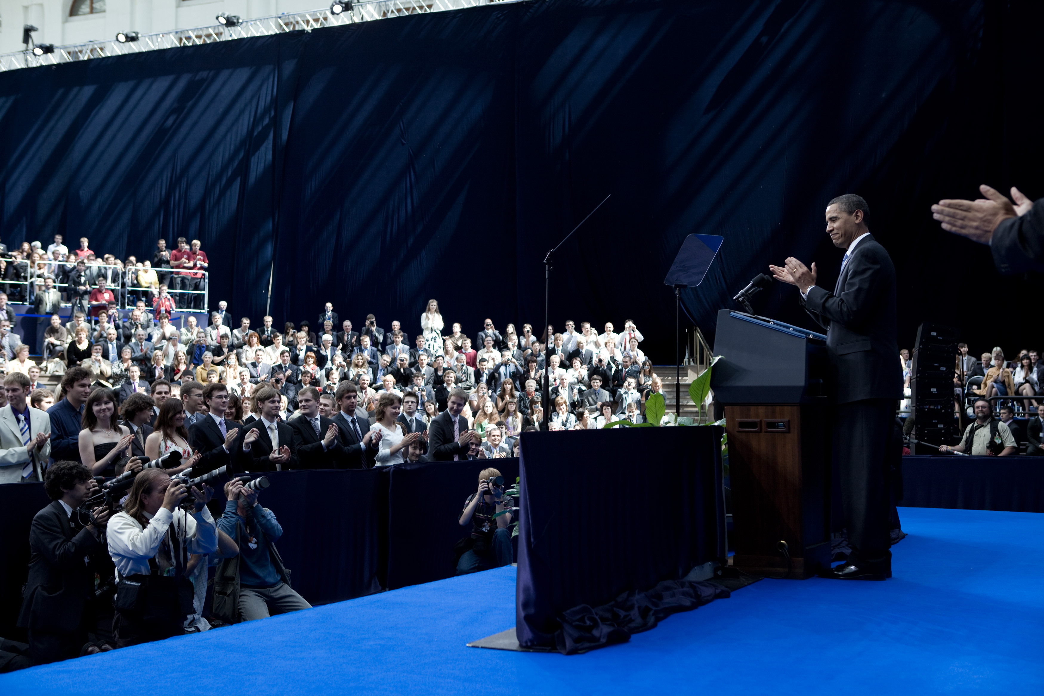 President Barack Obama delivers remarks at the New Economic School graduation in Gostinny Dvor, Russia, July 7, 2009. (Official White House Photo by Pete Souza) This official White House photograph is in the public domain from a copyright perspective, so while restrictions such as personality or privacy rights may apply, in general, manipulations are allowed.